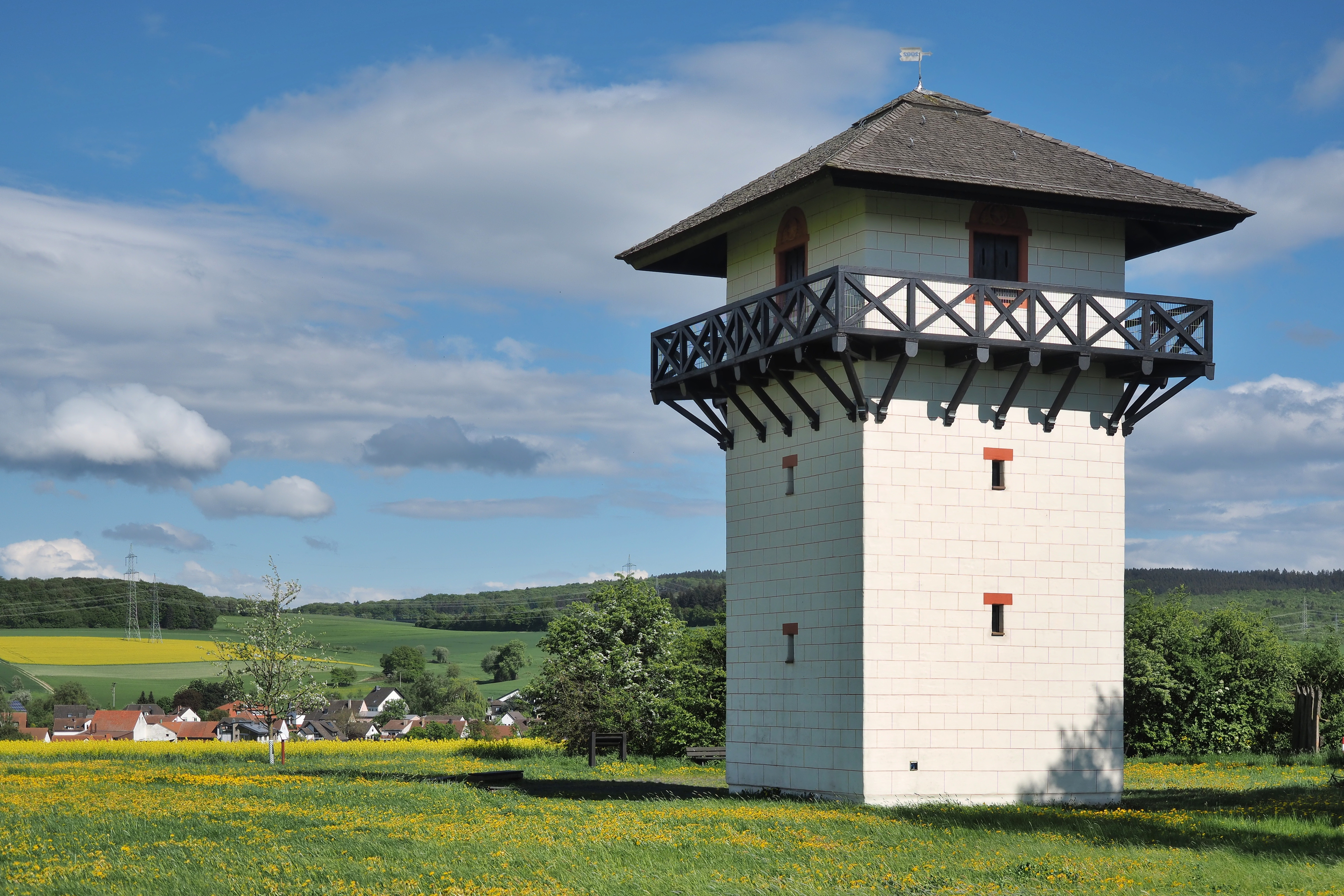 Roman watchtower reconstruction, Idstein, Germany